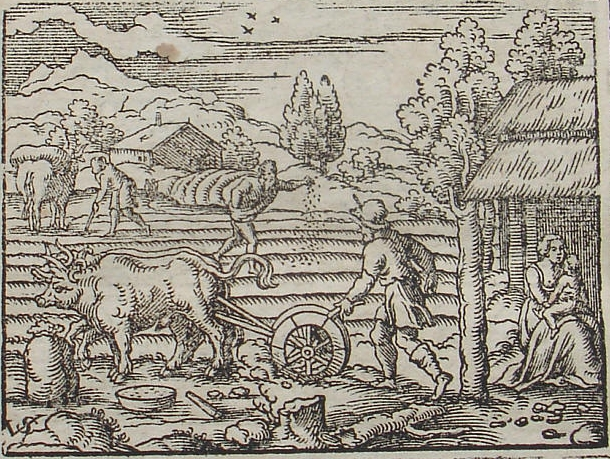 Silver Age. Engraving by Virgil Solis for Ovid's Metamorphoses Book I, 113-124. Fol. 3r, image 4.